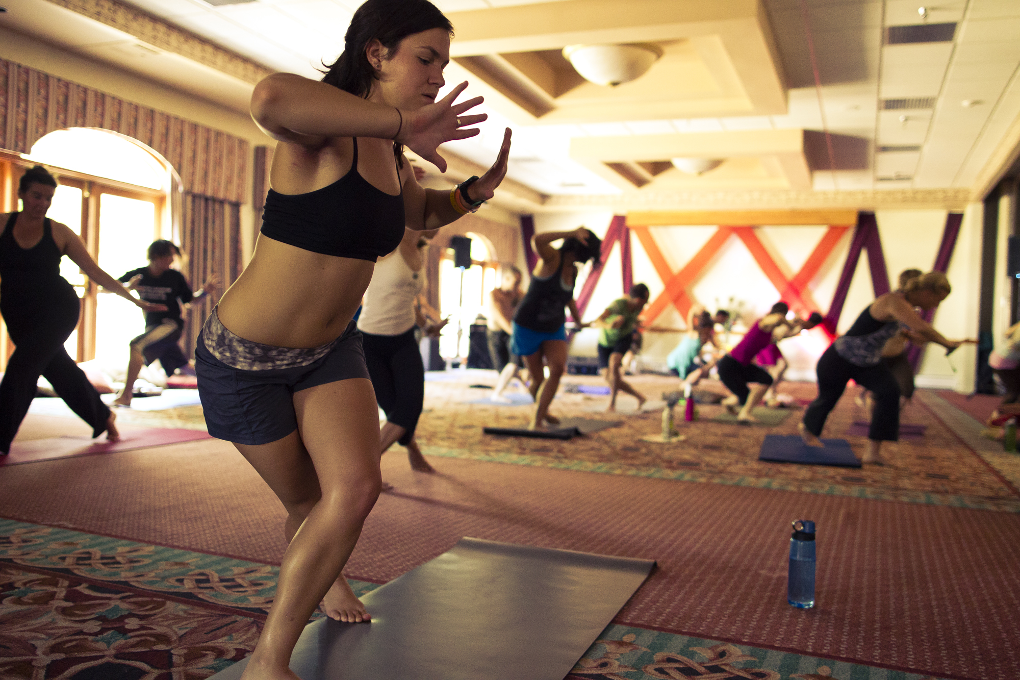 Wanderlust Festival Vermont 2012.